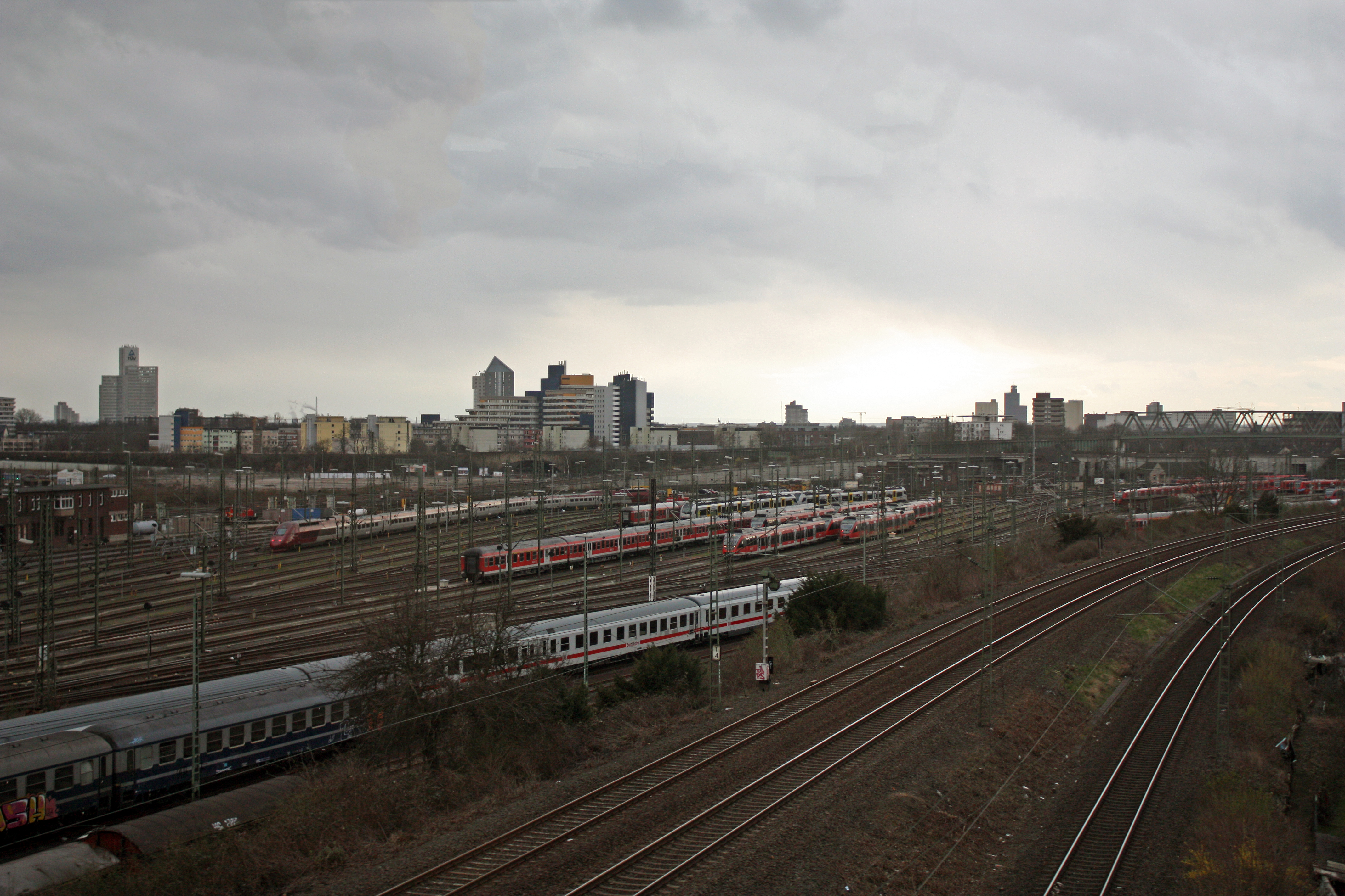 The Bahnhof Köln-Deutzerfeld (Köln-Deutzerfeld train depot), Köln-Deutz, Cologne, Germany.